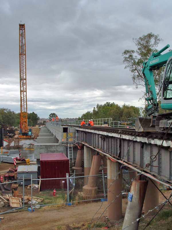 New concrete bridge over the Murrumbidgee in Wagga Wagga, New South Wales.